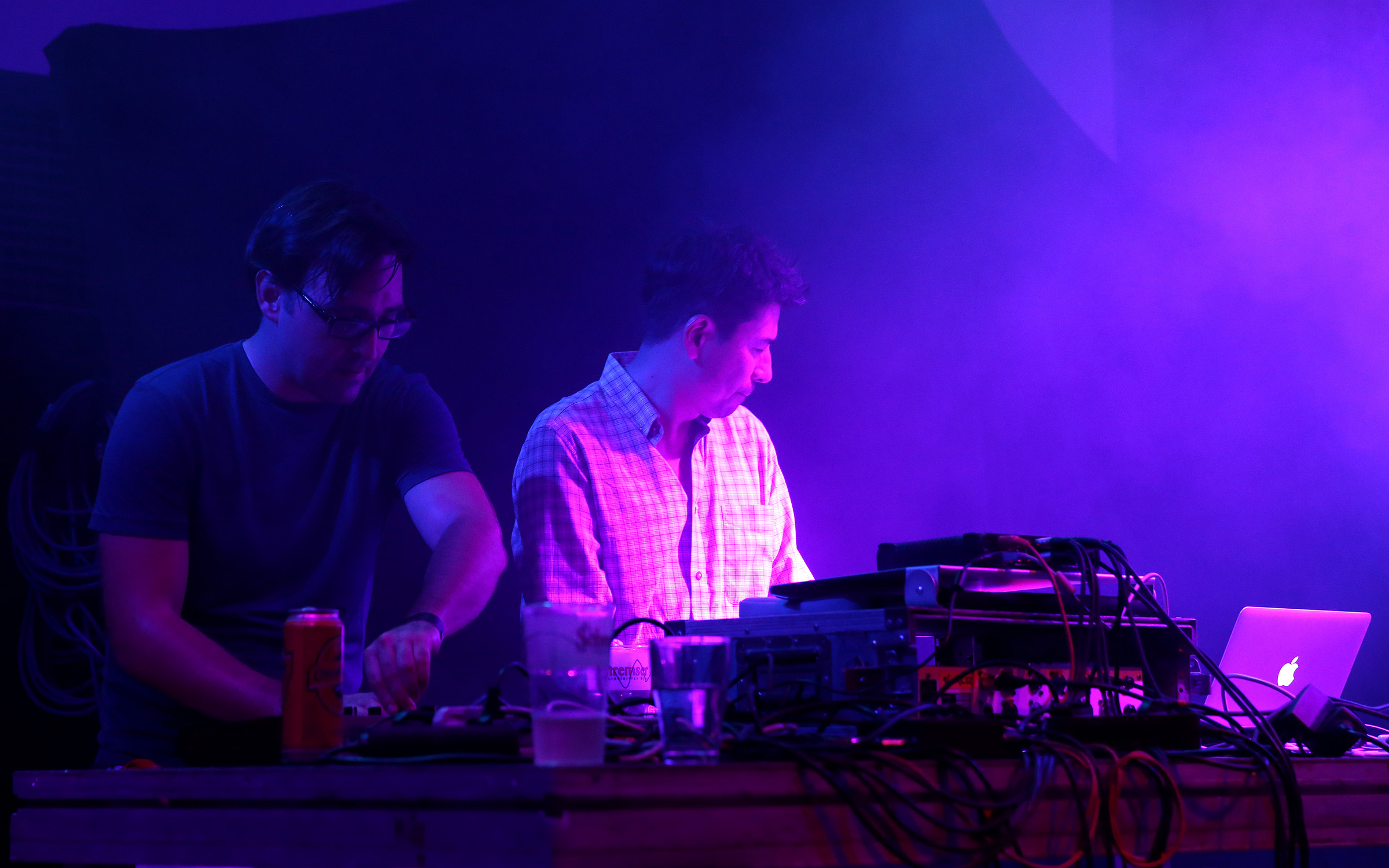 Ghost Capsules (with Tim Simenon), concert at brut im Künstlerhaus during Popfest 2013 in Vienna, Austria.